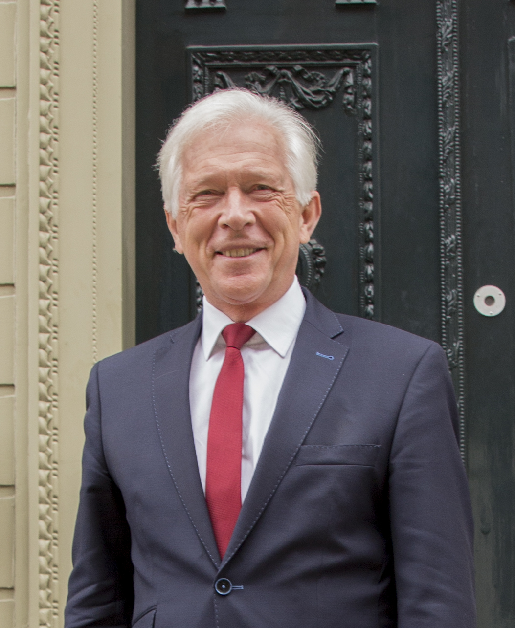 Board of the University of Groningen